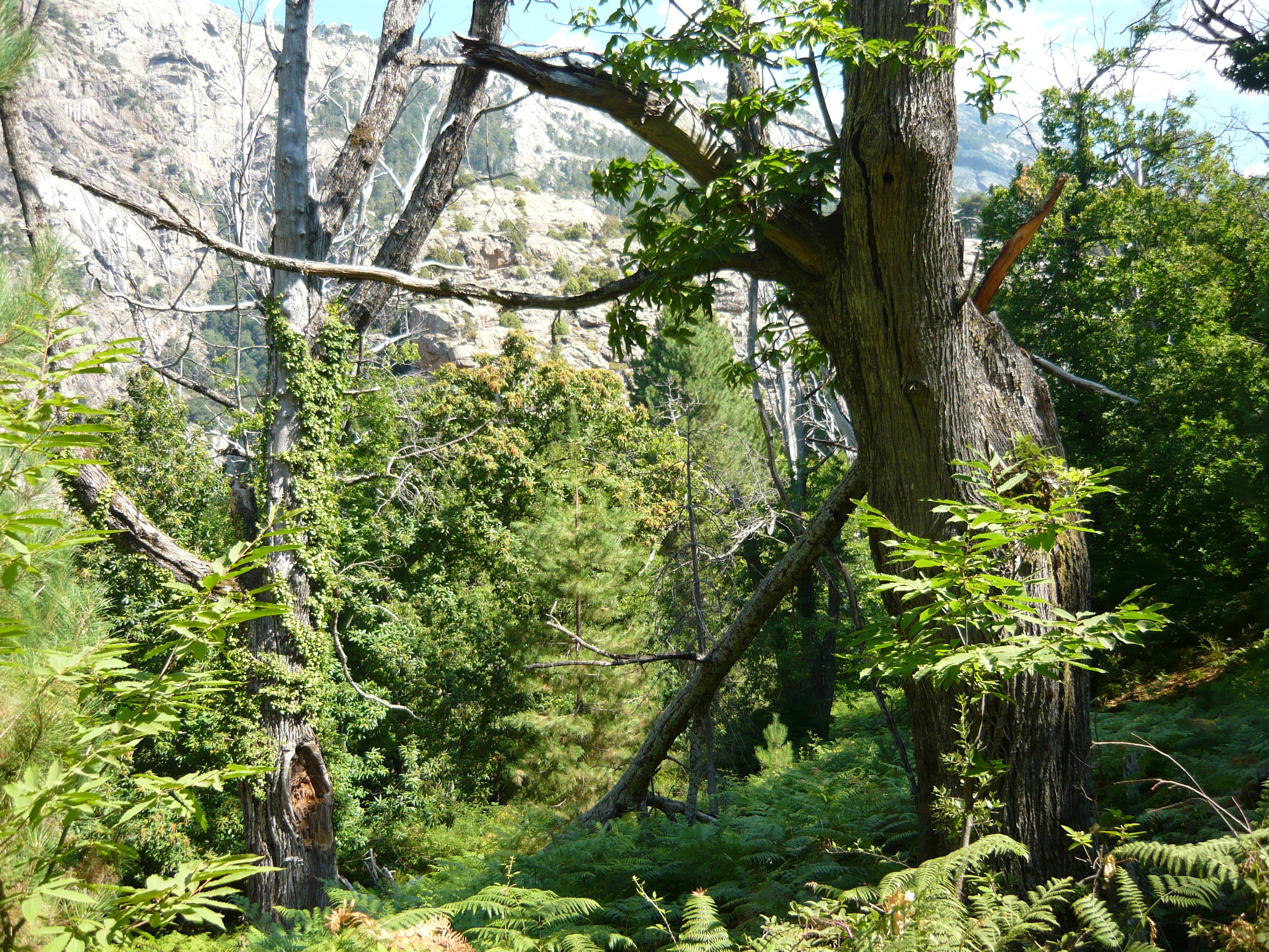 Dying Sweet Chestnut trees near Evisa, Corsica